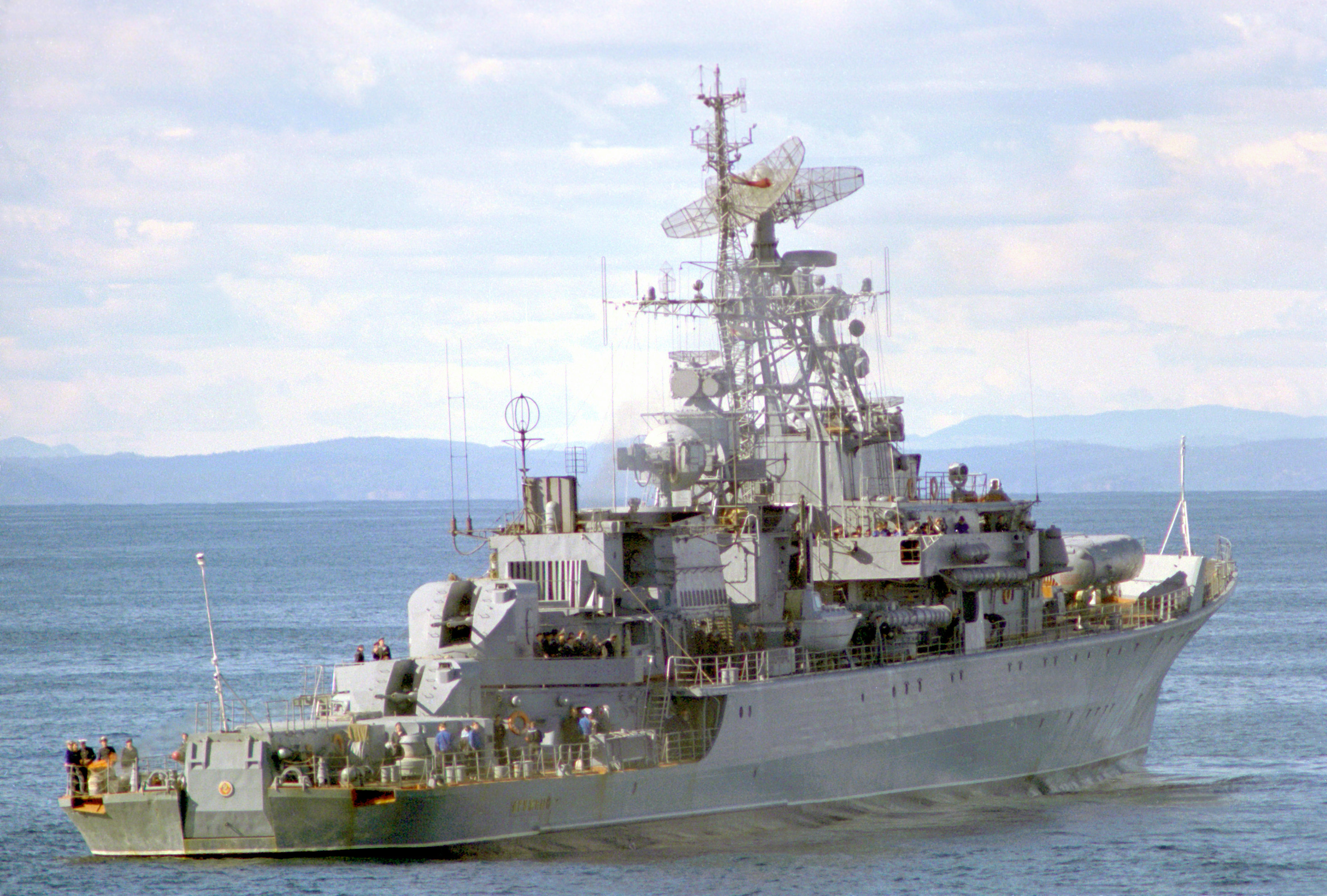 A starboard quarter view of the Soviet Krivak I class frigate DRUZHNY. The ship is observing NATO ships participating in exercise Northern Wedding '86.